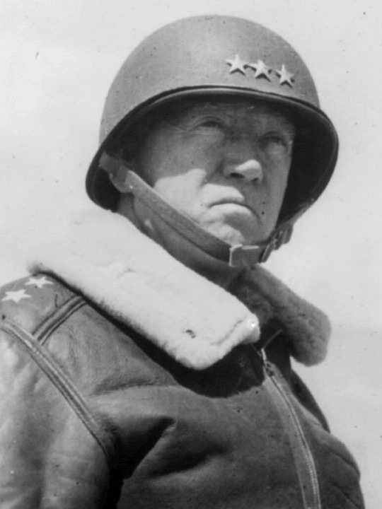 Lieutenant General George S. Patton Jr., 1943. (pictured before his promotion to full General). U.S. Army Signal Corps. "George Patton as Lt. General." March 30, 1943.